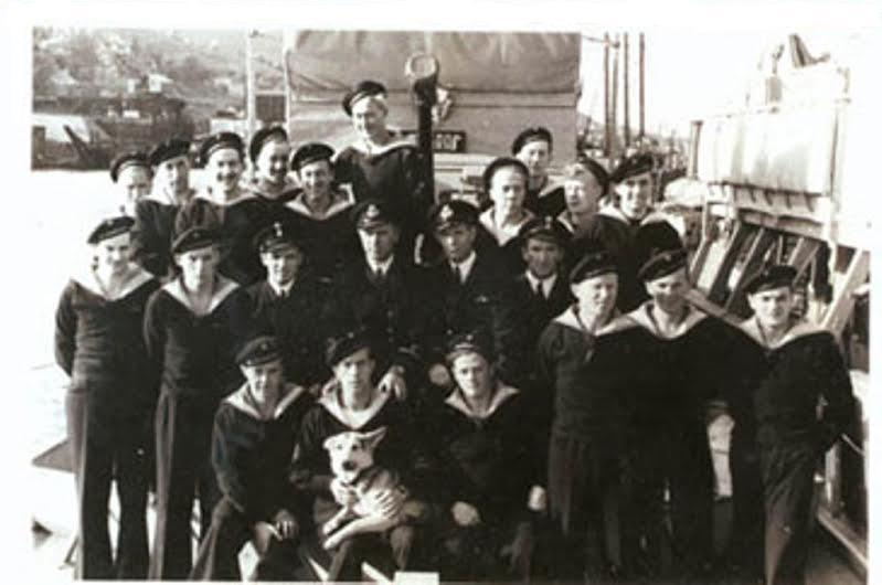 Leif Larsen ShetlandsLarsen with his crew onboard KNM Vigra